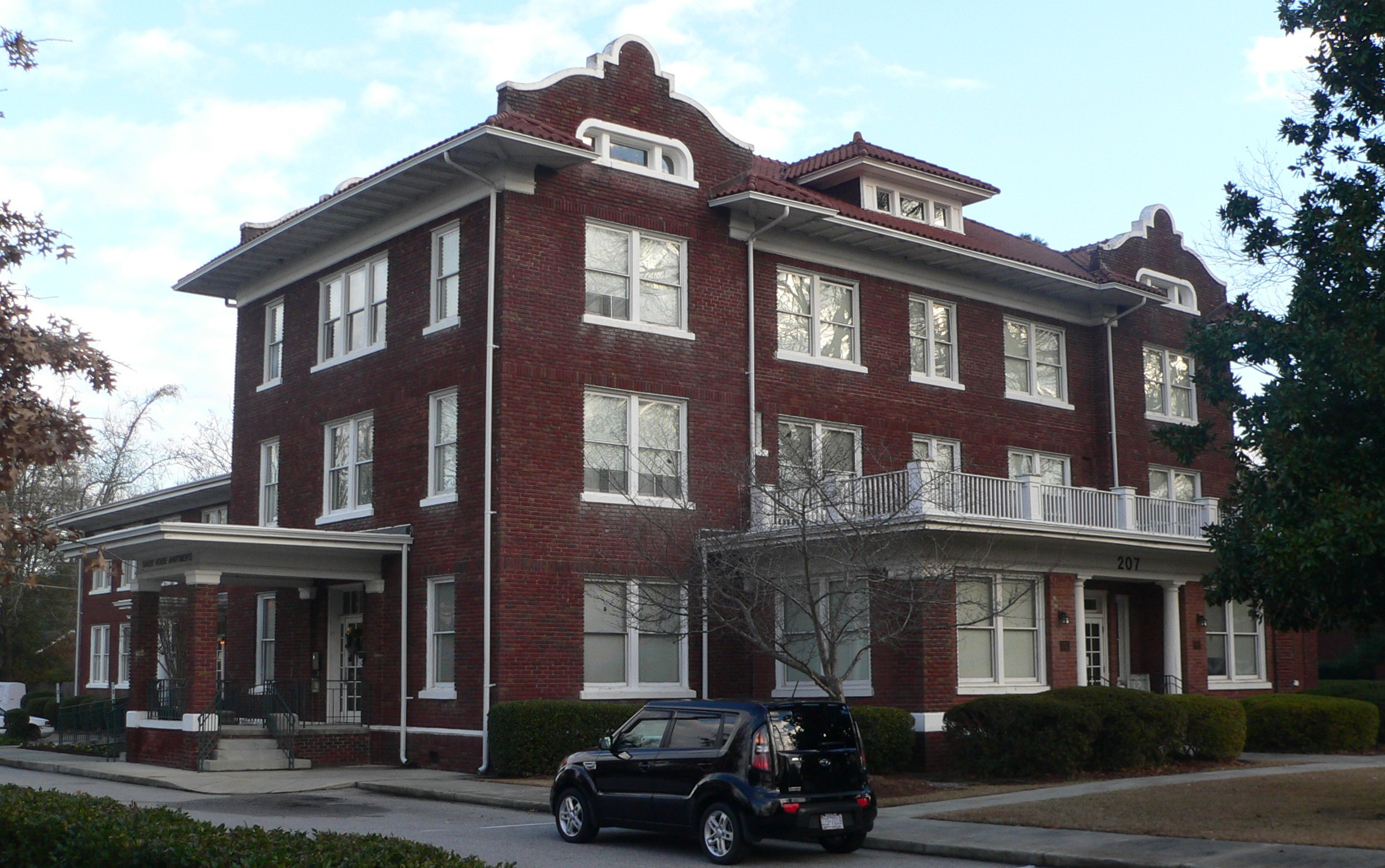 Baker House Apartments, formerly Baker Sanatorium, located at 207 E. 14th Street (northeast corner of 14th and Chestnut Streets) in Lumberton, North Carolina; seen from the southwest.